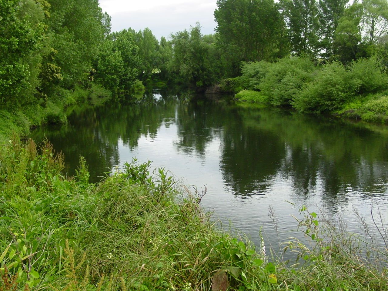 Waihou River in New Zealand.